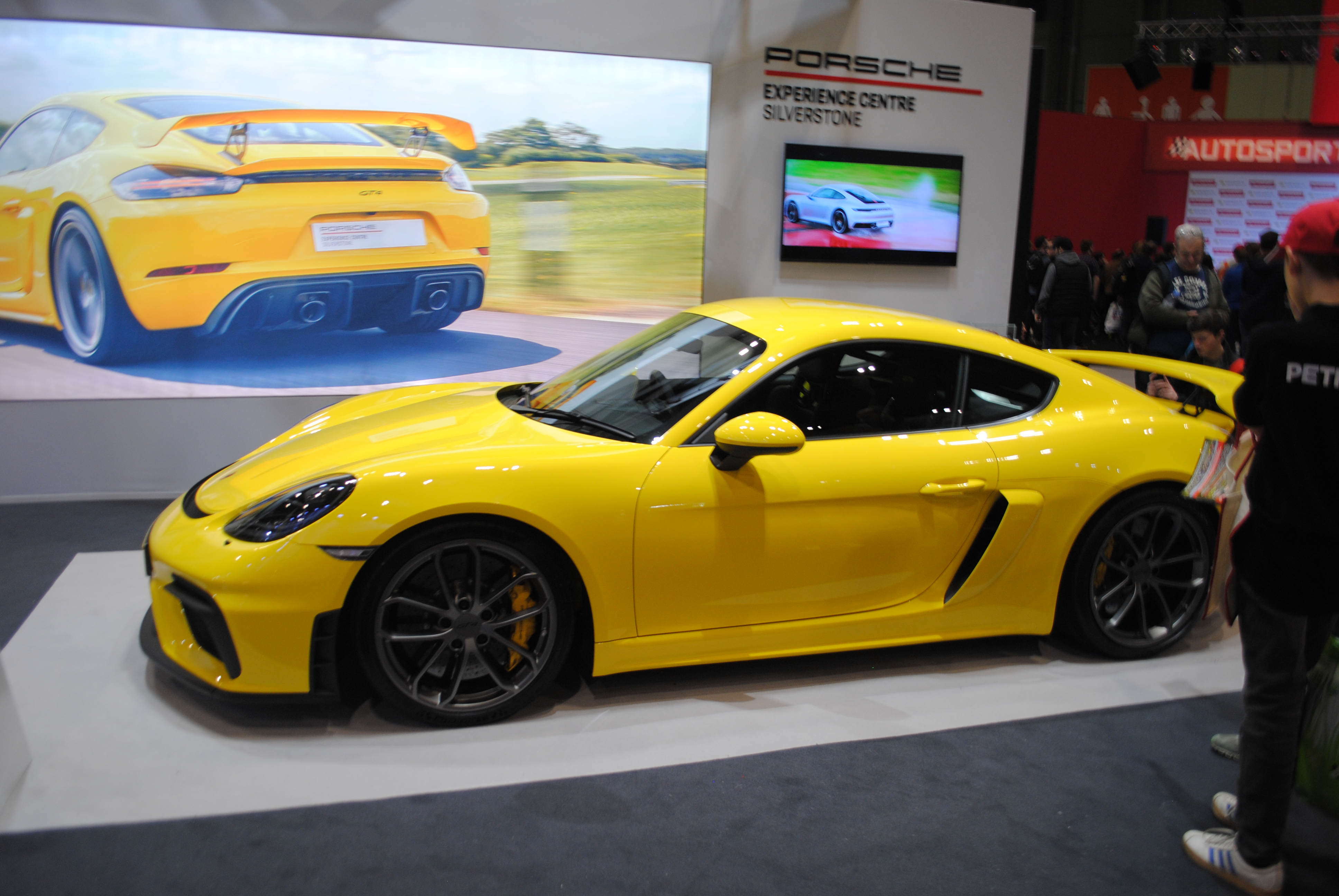 The Porsche 718 Cayman GT4 Clubsport, which will be used in the new Porsche Sprint Challenge Great Britain.